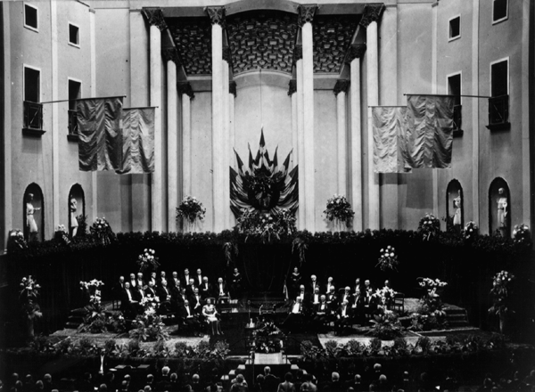 The 1938 Nobel Prize ceremony: Enrico Fermi and Pearl S. Buck.